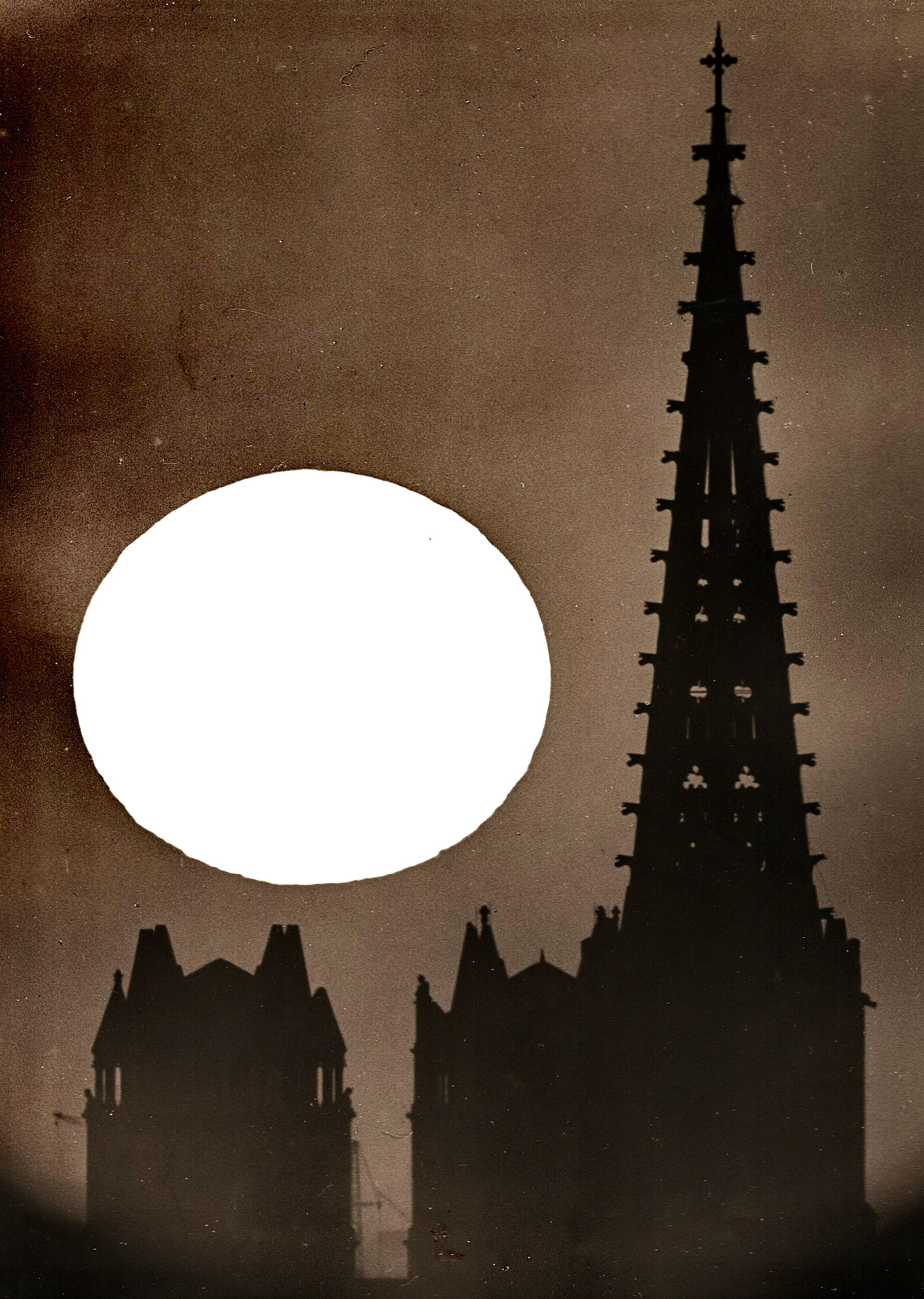 Deformity of the sun's disc very near the horizon. Instrument: 4" refractor f = 1650 mm